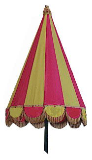 Basilical ombrellino.